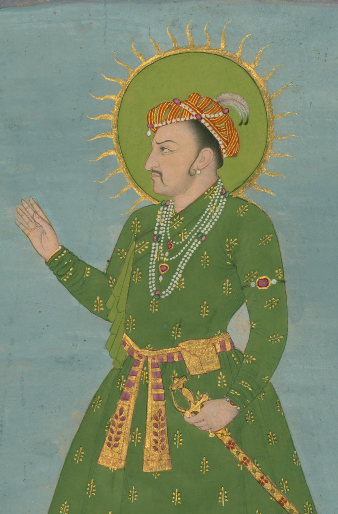 This painting, Walters manuscript leaf W.705, depicts the Mughal ruler Jahangir (reigned 1014-1037 AH/AD 1605-1627), standing in three-quarter profile, a pose that was common in official Mughal portraiture. It is attributable to the 13th century AH/AD 19th. During that time, portraits of earlier Mughal rulers were copied and disseminated. This work is executed in opaque watercolor and gold.